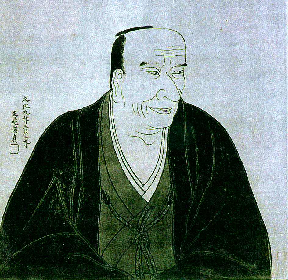 Portrait of Kameda Bohsai,Buncho Tani Works,Kitamura Tansen reduced-size a woodcut printing